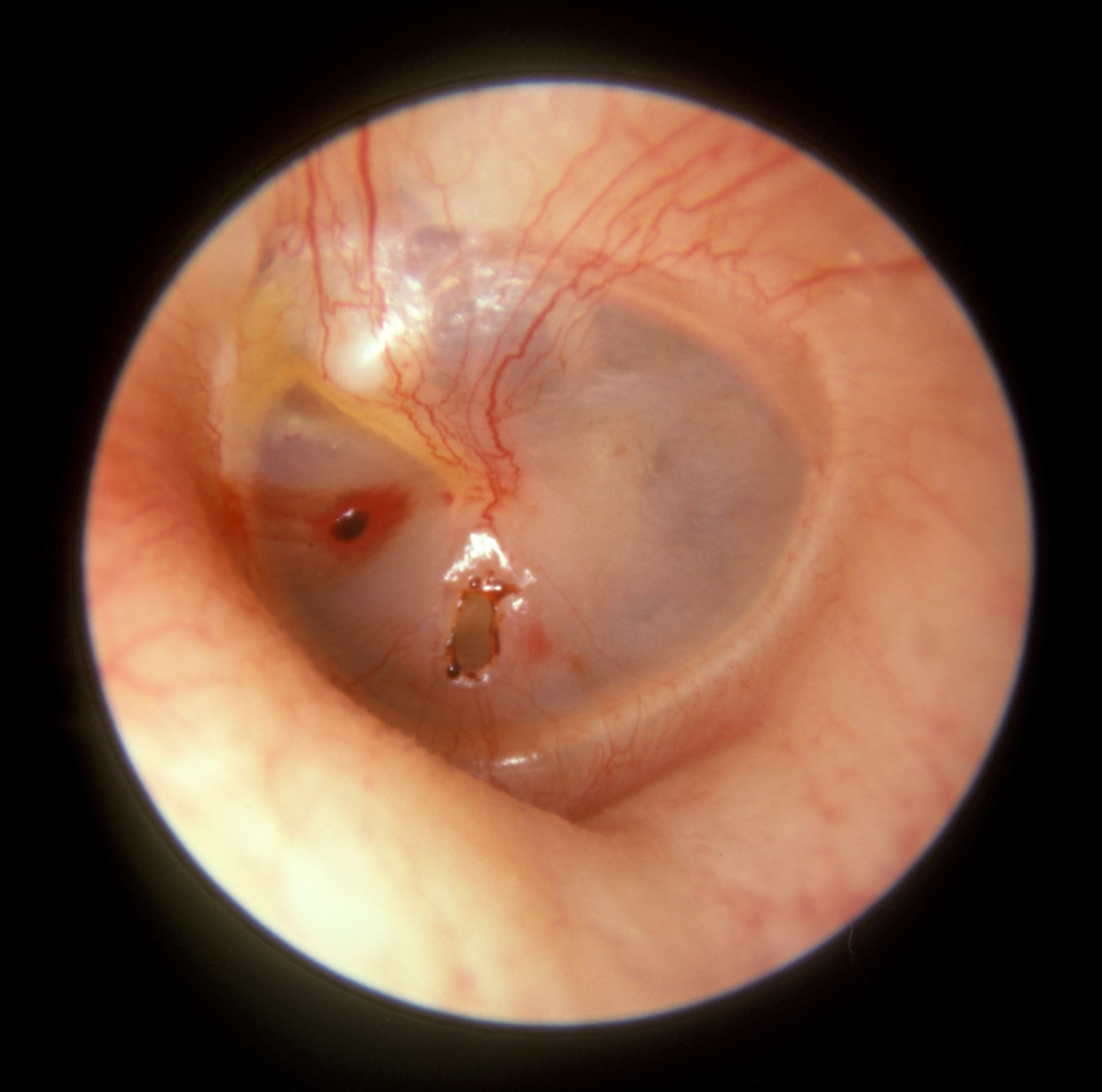 The oval perforation in this left tympanic membrane was the result of a slap on the ear four days previously. The sudden increased air pressure in the external auditory canal produced this traumatic blast perforation. As with most traumatic perforations of the tympanic membrane, the defect in the tympanic membrane and healed completely and with no visible scarring.